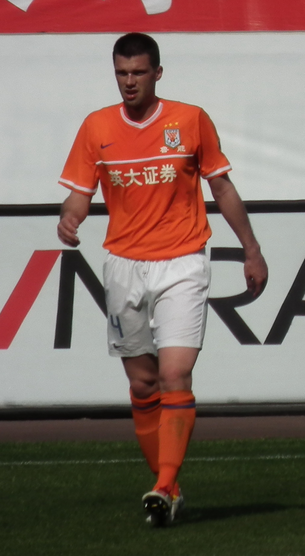 Shandong Luneng player Siniša Radanović.